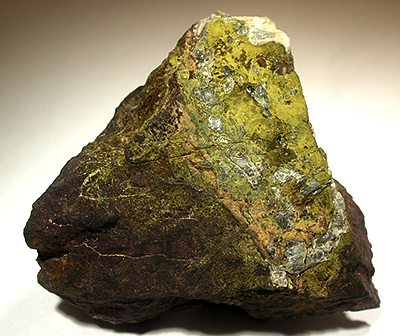 Mitridatite, Purpurite Locality: Pack Rat Mine, Mt. Tule, Jacumba District, San Diego County, California, USA (Locality at ) Size: small cabinet, 7.1 x 6.7 x 2.5 cm Purpurite and Mitridatite A richly colored massive specimen with golden mitridatite and purple purpurite all over it. Quite rare material for San Diego and a nice study specimen. Ex. Tim Sherburn collection from Cal Graeber as a gift in 1994. Collected by Gary Wallace earlier that year. 7.1 x 6.7 x 2.5 cm